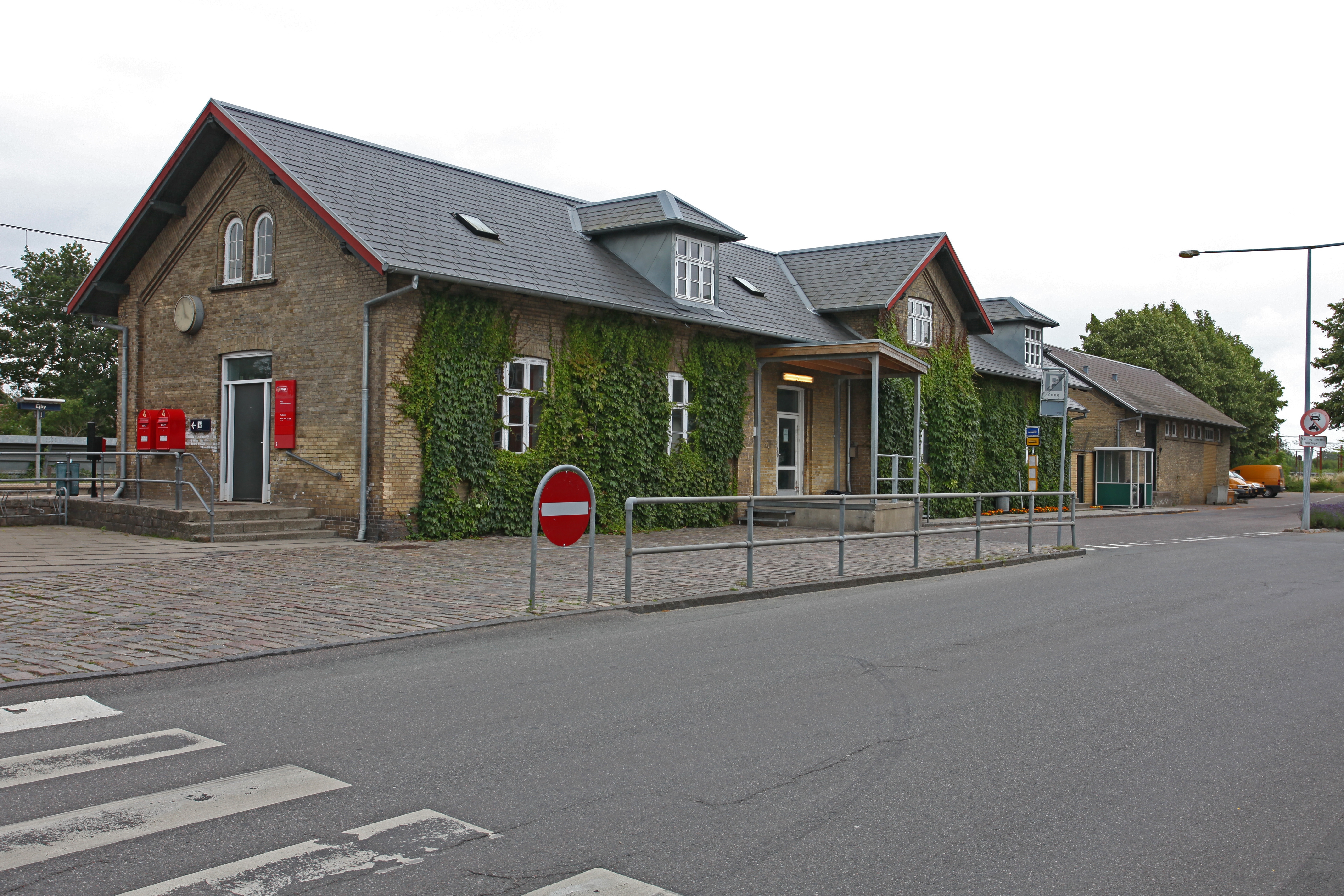 Picture of Ejby Railway Station (Fyn - Denmark)